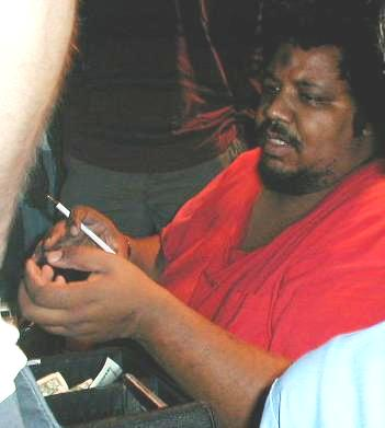 Wesley Willis, on October 1, 2000 (cropped from original)